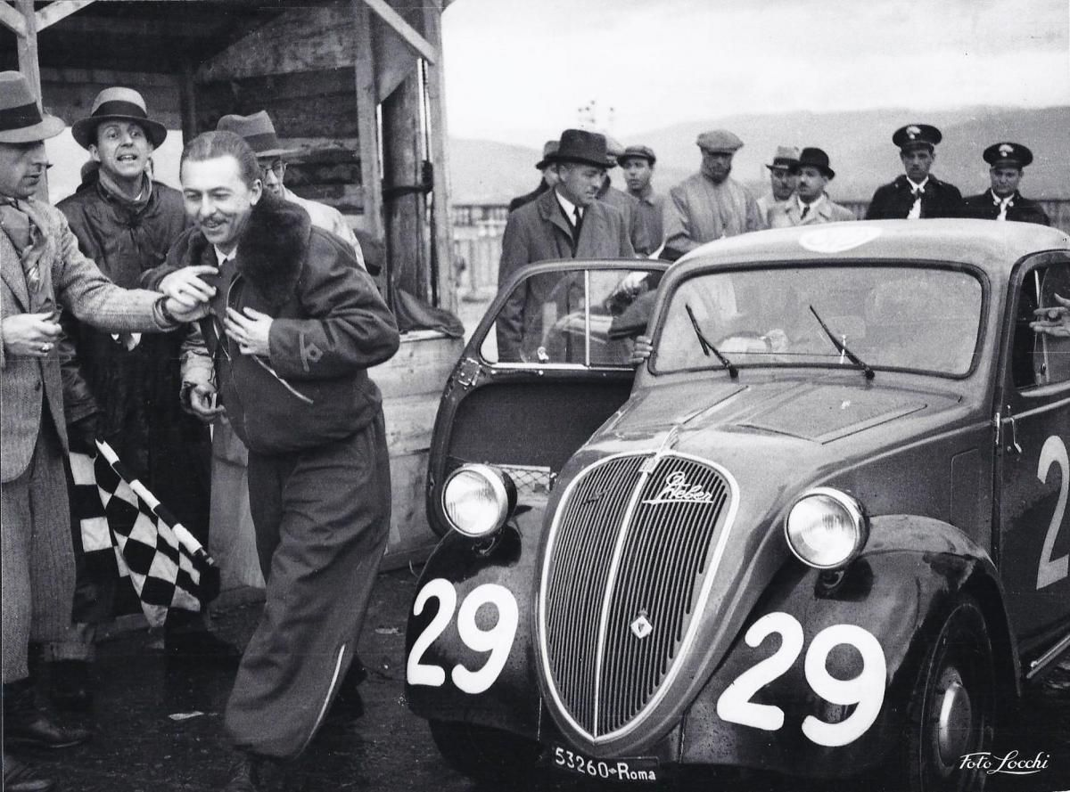 Raffaello Guzman coming out of a Fiat 500 "Testa Siata" at 1937 Mille Miglia. Entry #29 ended in 63rd place, and Mario Jelmini was the co-driver.[1] Seems this car was for sale around 2019 (chassis 500009563).[2]